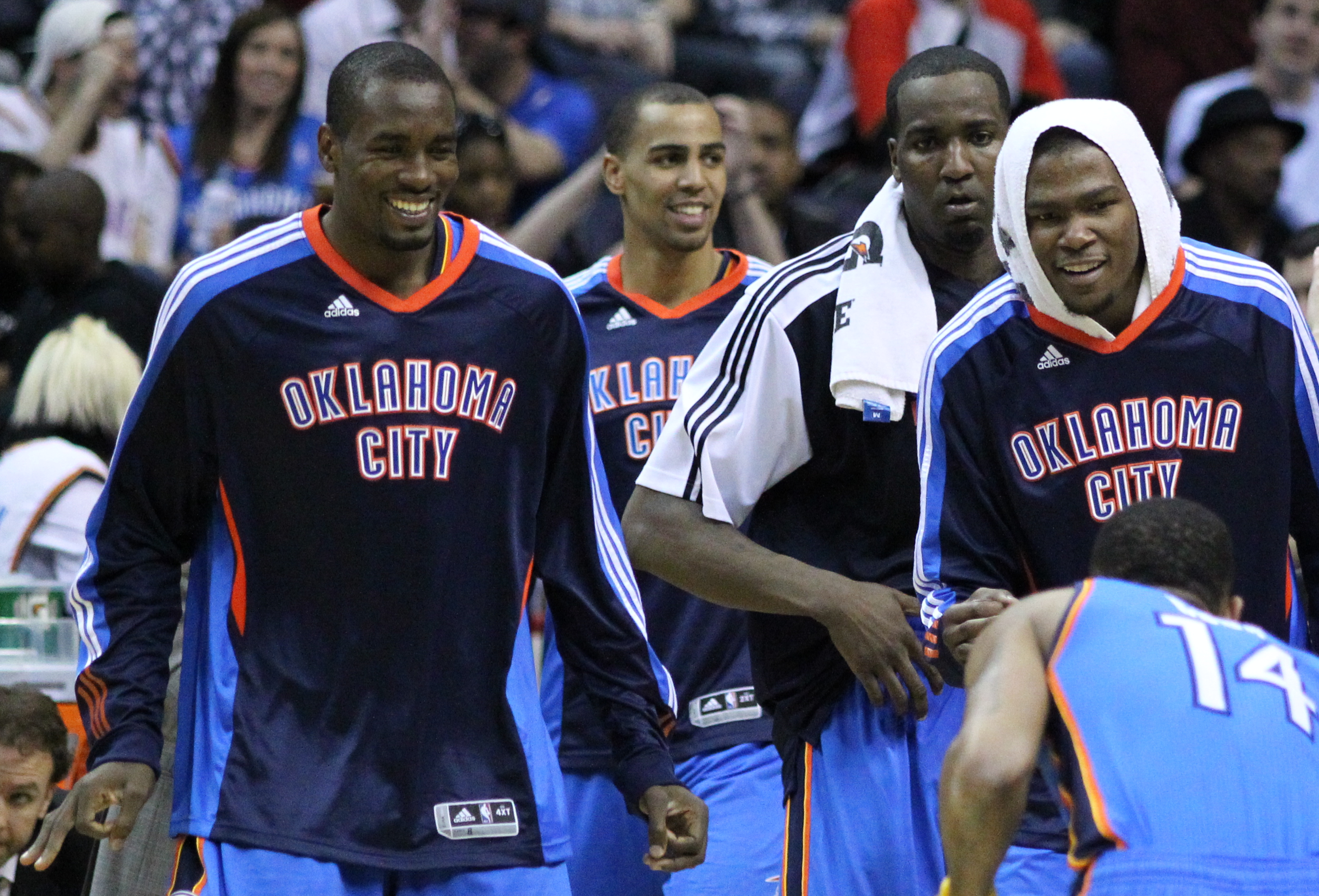 left to right: Serge Ibaka, Thabo Sefolosha, Kendrick Perkins, and Kevin Durant